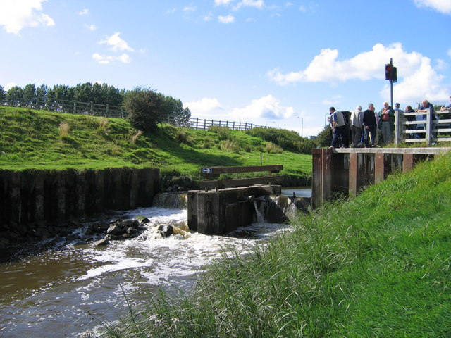 Savick Brook navigation weir; Ribble Link, near to Lea Town, Lancashire, Great Britain. The lowest lock on the Ribble Link, opened in 2002 and using the Savick Brook to connect the Lancaster Canal with the River Ribble, is a navigation weir, seen here being examined by a party of industrial archaeologists. A horizontally-pivoted gate, to the right of the mid-channel concrete island, holds back sufficient water in the brook to keep boats afloat. When the incoming tide from the Ribble raises the water in the brook below the weir to the same level, the gate is lowered and boats may pass to and fro. The conventional weir to the left of the island allows surplus water in the brook to drain away during times of heavy rain.